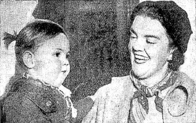 Australian author and illustrator Elisabeth MacIntyre with her daughter Jane, on her return from two months in the US.